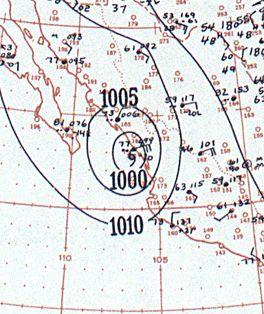 Surface weather analysis map of 1943 Mazatlán hurricane on October 9, 1943.